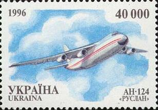 Stamp of Ukraine